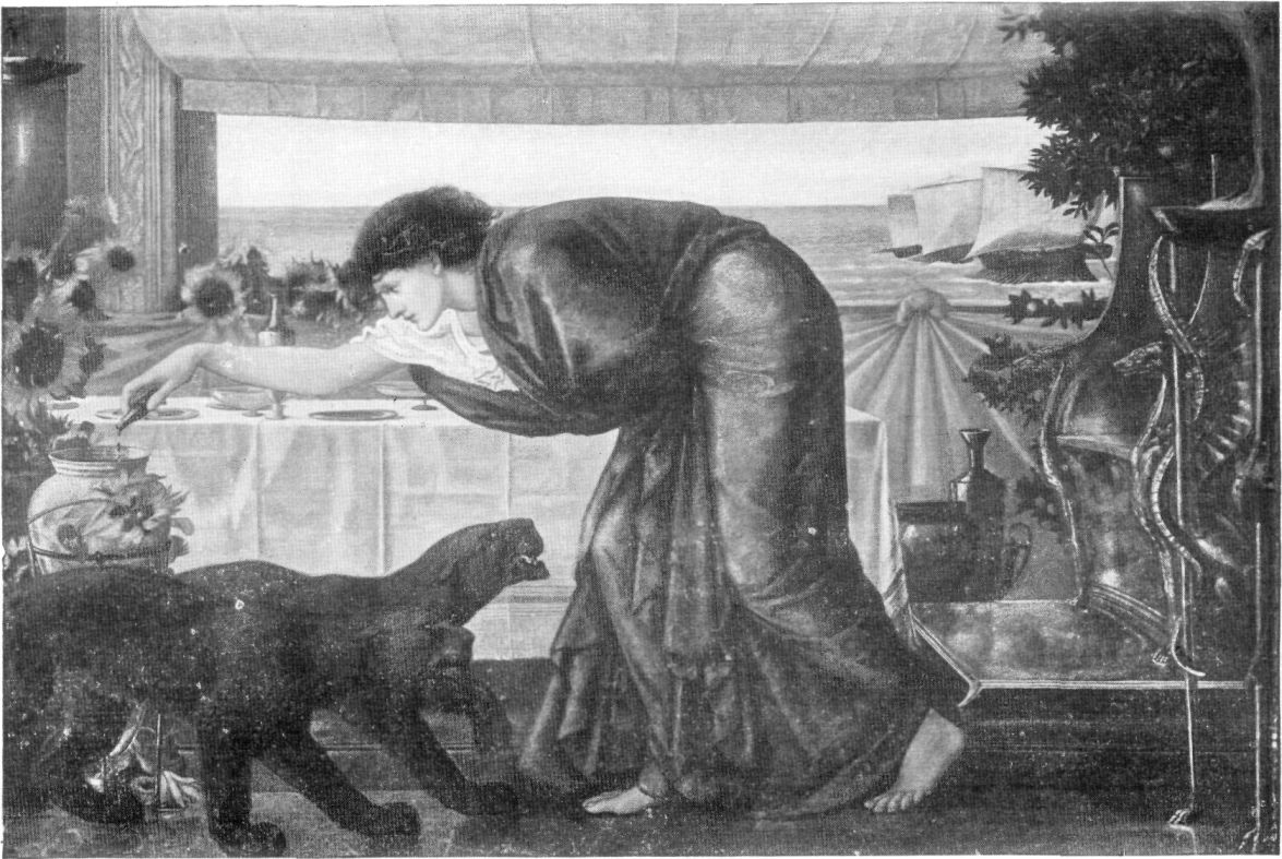 Birmingham Museum & Art Gallery oil on canvas 206 x 312 cm 1888